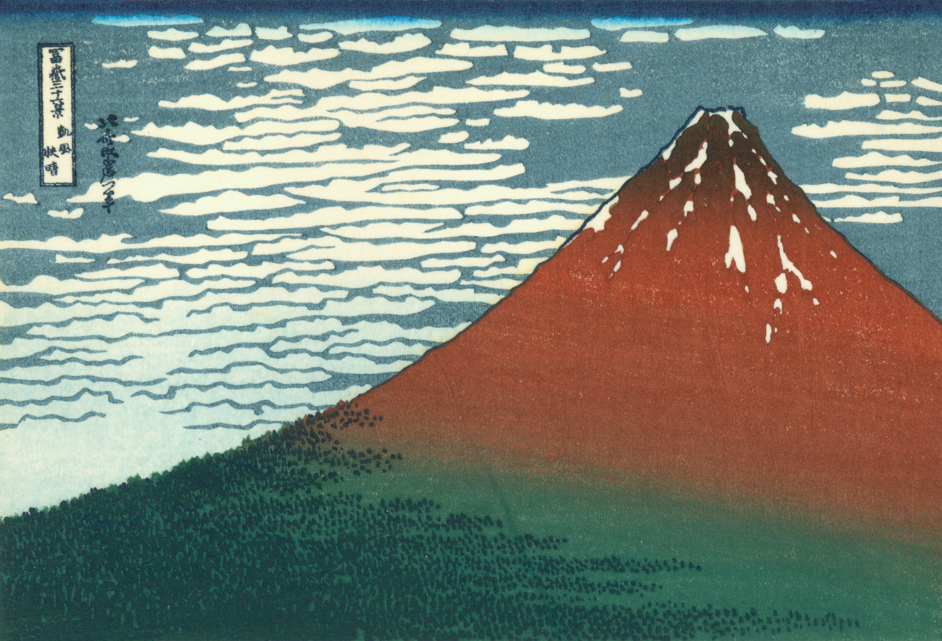 Part of the series Thirty-six Views of Mount Fuji, no. 33.